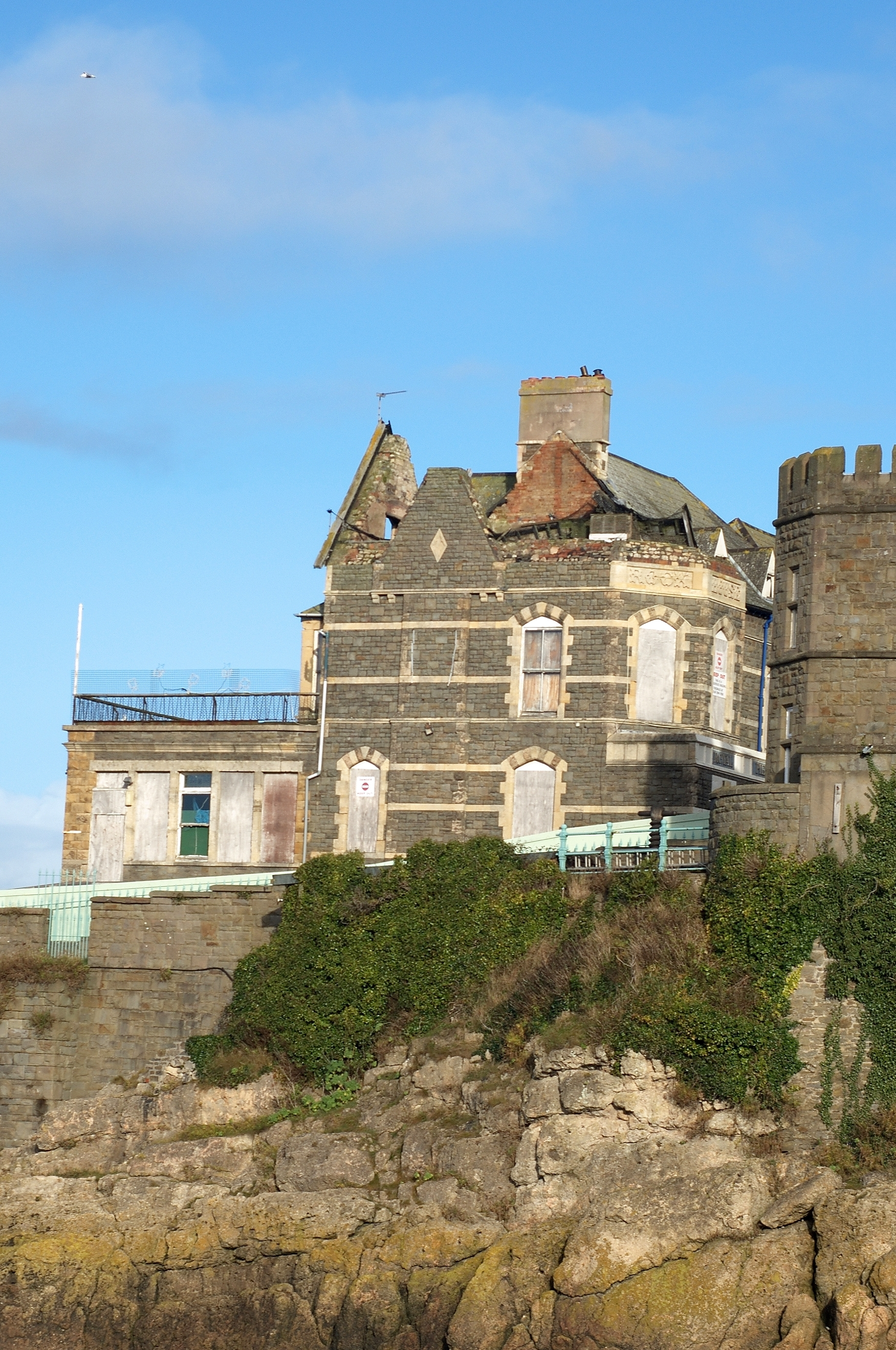 The Royal Pier Hotel, Clevedon, seen from the beach, showing the damaged roof